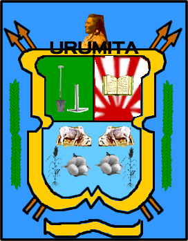 Coat of arms of the Colombian municipality of Urumita Public domain. Created in 1785.